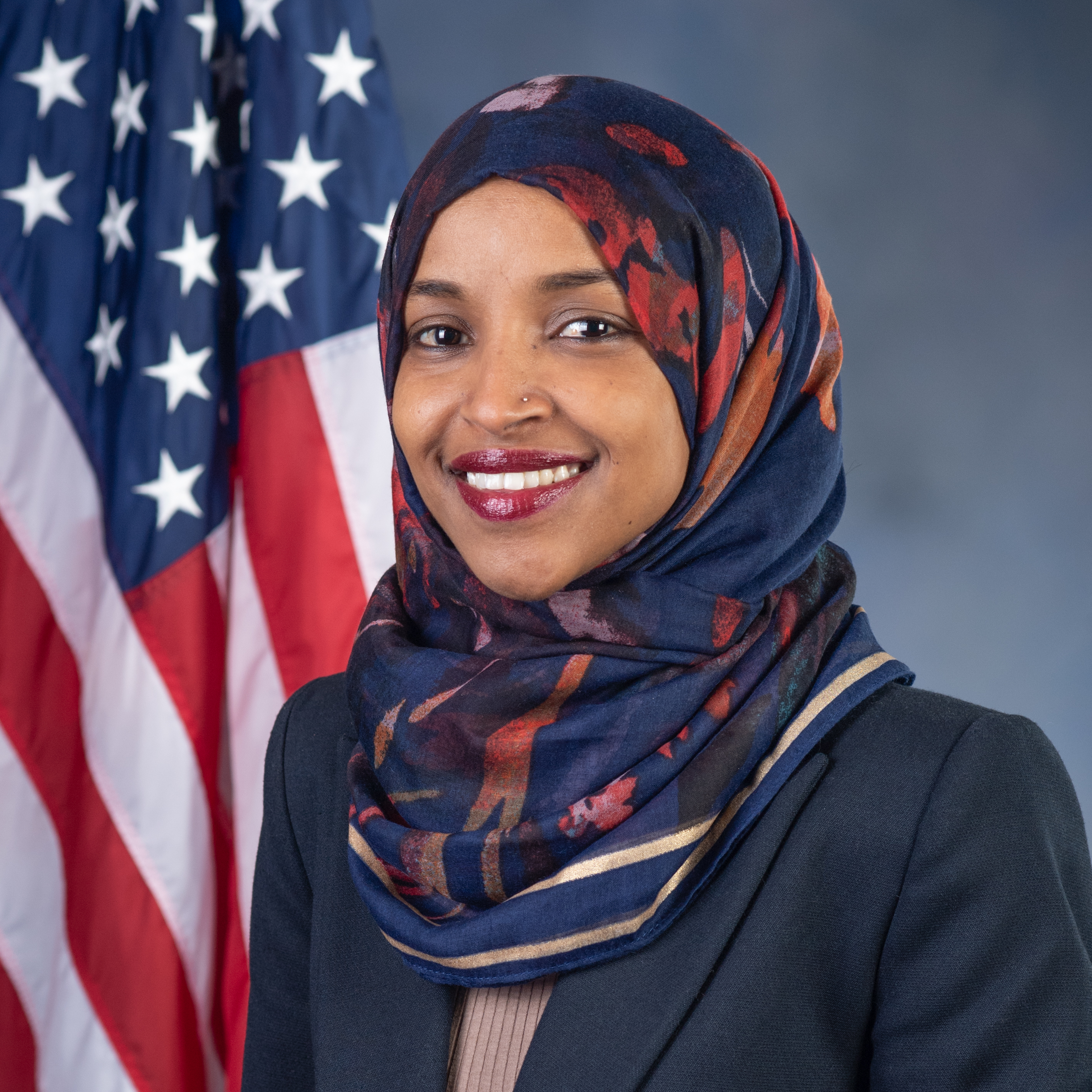 Rep. Ilhan Omar (D-MN05)